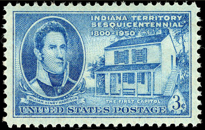 U.S. Commemortve stamp, featuring William Henry Harrison and indiana StatehoodThis Indiana Territory Issue stamp commemorates the 150th anniversary of the establishment of the Indiana Territory. The Indiana Territory was the first area formed out of the Northwest Territory. The stamp features a portrait of the territory’s first governor, William Henry Harrison, and an image of the First Indiana Capitol Building in Vincennes, Indiana.